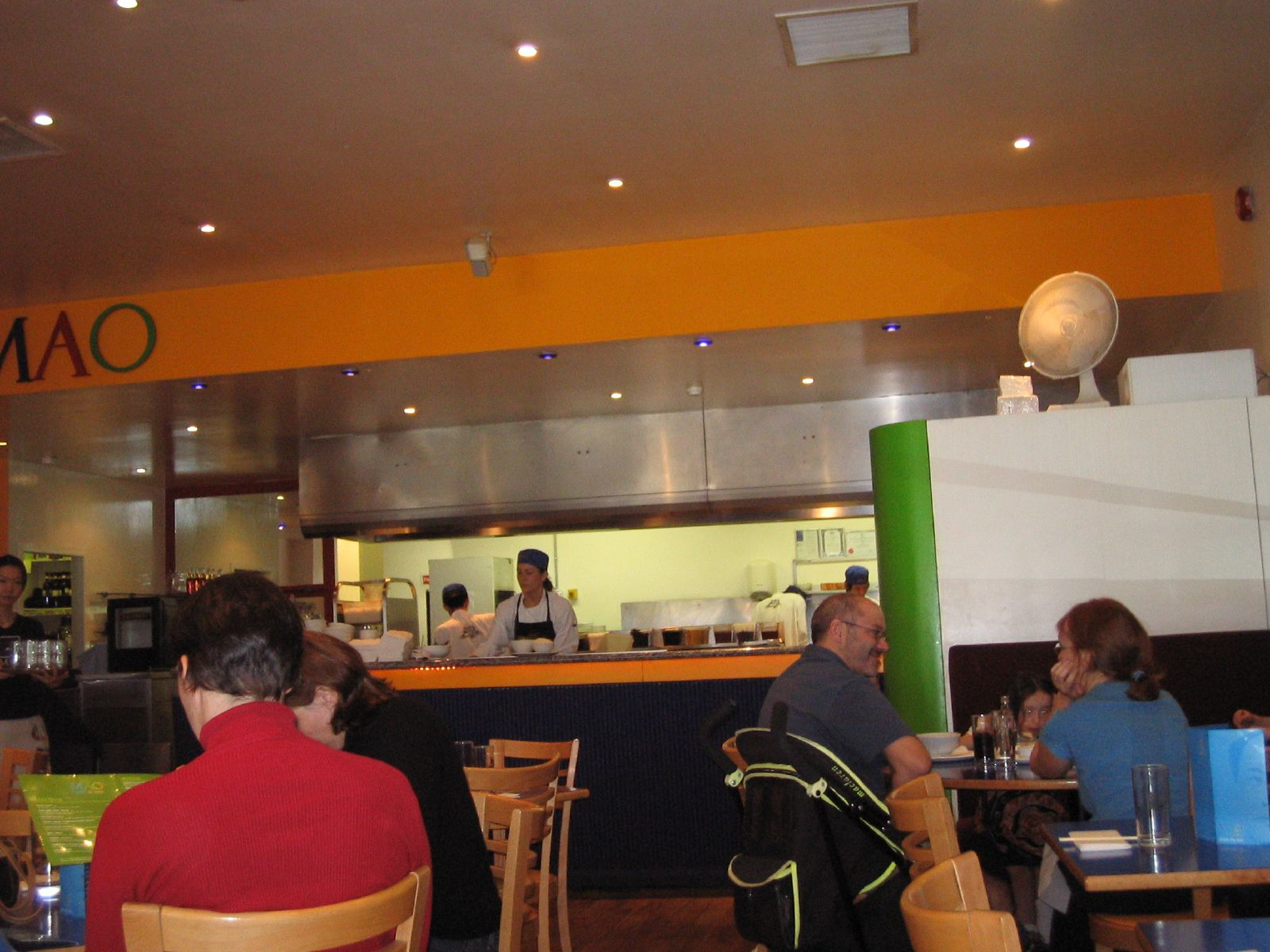 This unusually named restaurant is in Dun Laoghaire. Originally they had potraits of Chairman MAO on the walls but these have since been removed. Someone suggested that they should change the name to HITLER.